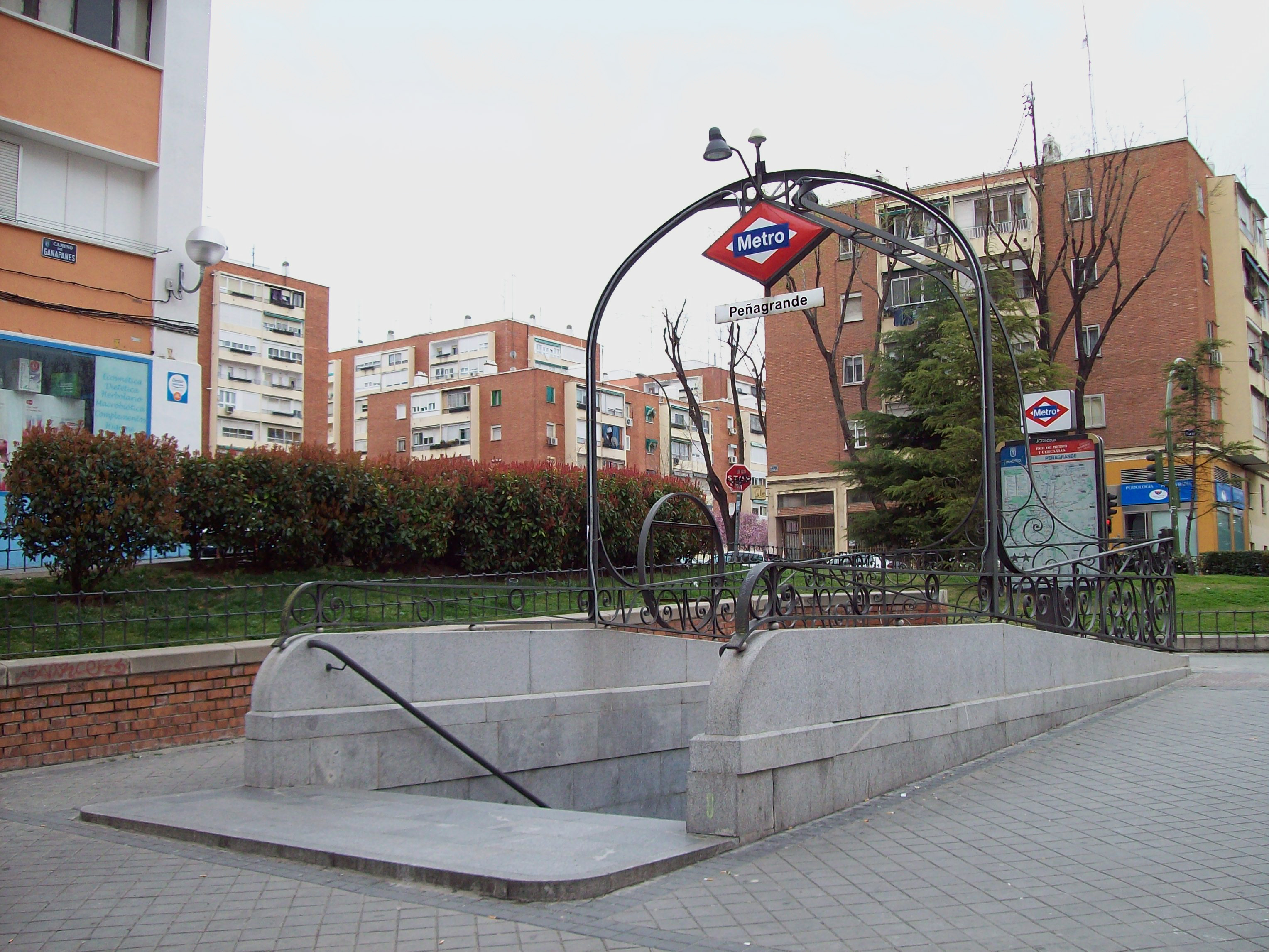 Entrance of Peñagrande metro station in Madrid (Spain), at 40 Calle de La Bañeza (street) in Fuencarral-El Pardo district.